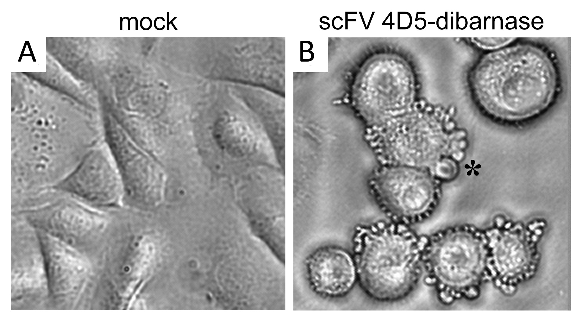 SKOV-3 cells treated with scFv 4D5-dibarnase for 72 h demonstrated membrane blebbing. (A) The mock-treated cells were attached to the plate and were flat. (B) Cells incubated with 50 nM scFv 4D5-dibarnase became rounded and detached. Membrane blebbing (asterisks) were observed. Phase-contrast microscopy of a random field at a magnification of 400×.